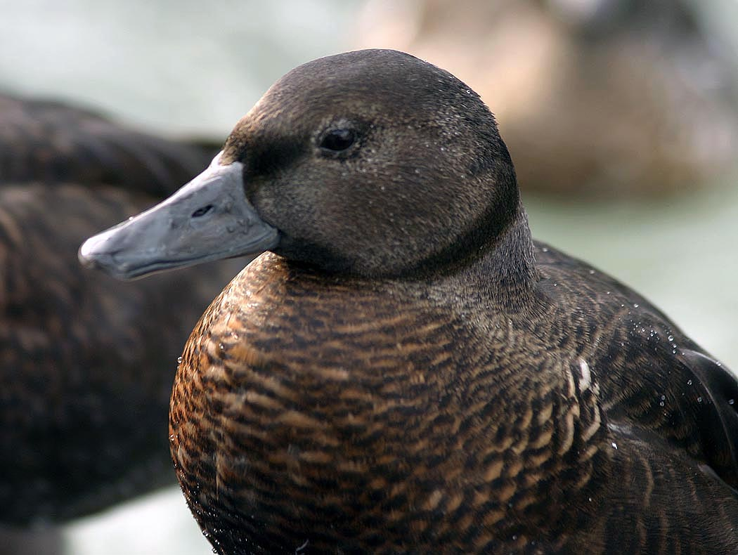 Steller's Eider (Polysticta stelleri) - female